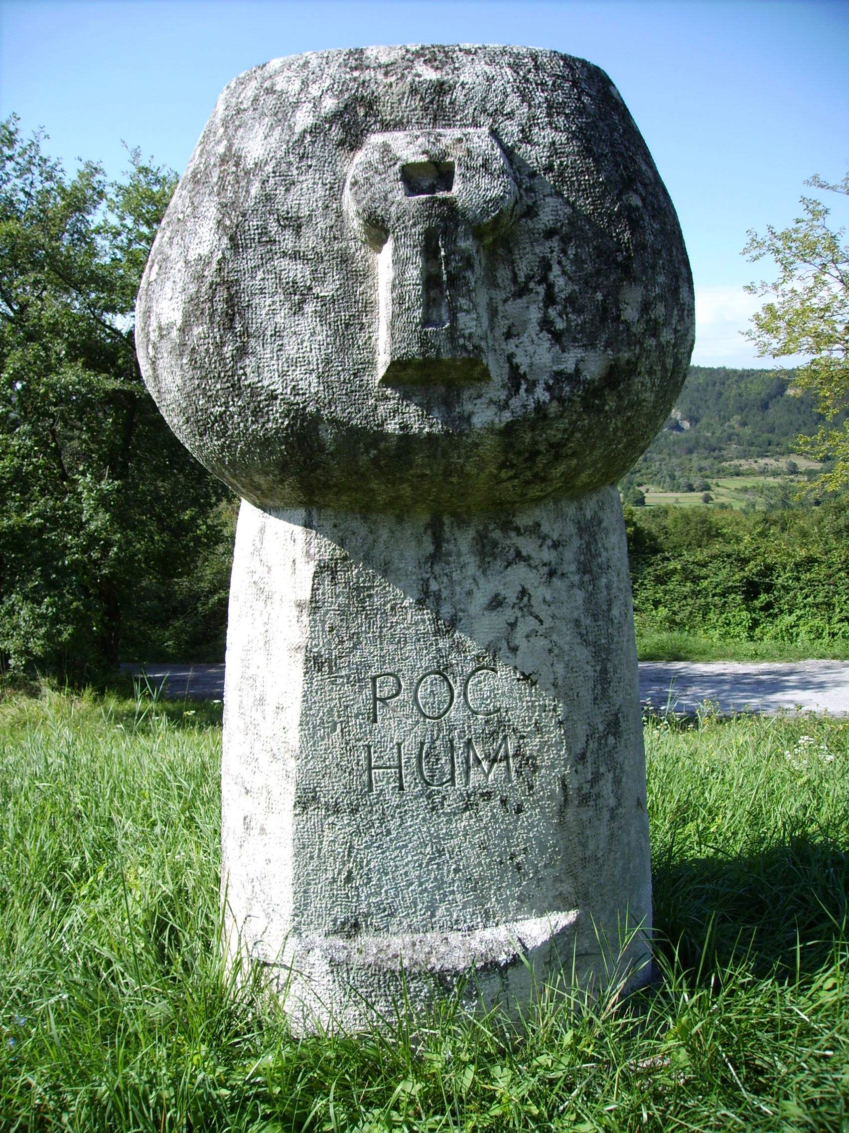 Monument at the beginning of the Glagolitic Avenue near Hum, Croatia